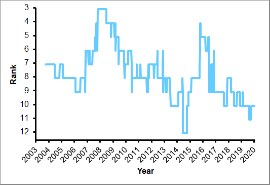 IRB World Rankings from